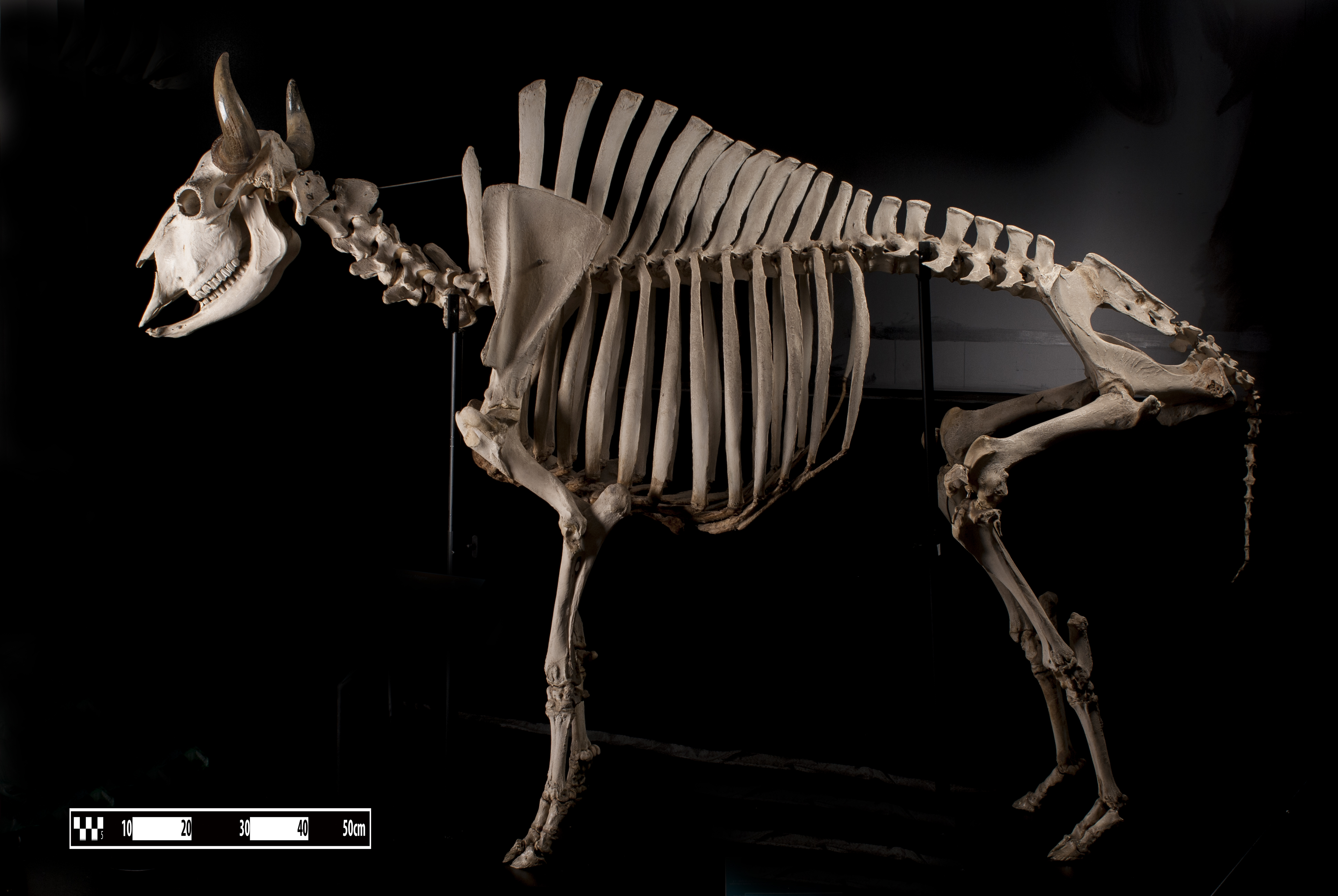 Bison skeleton. “Bison bison. Specimen of Bison skeleton prepared by the bone maceration technique and on display at the Museum of Veterinary Anatomy, FMVZ USP.